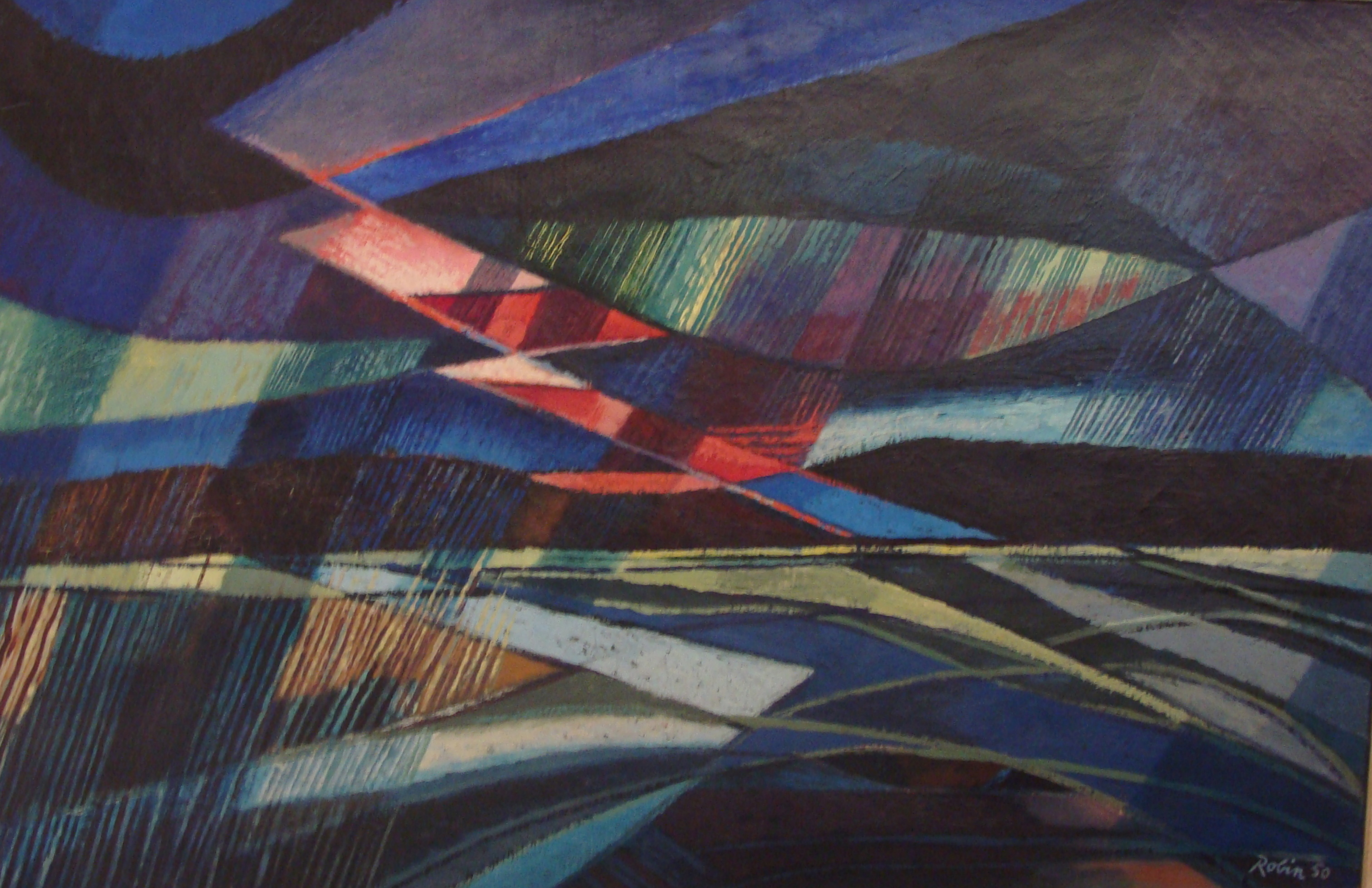 Terres froides : l'orage sur la plaine.- 1950 (huile sur toile 92x60)